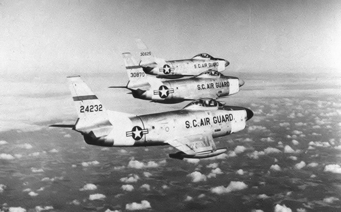 157th Fighter-Interceptor Squadron 3-ship F-86D formation 1959